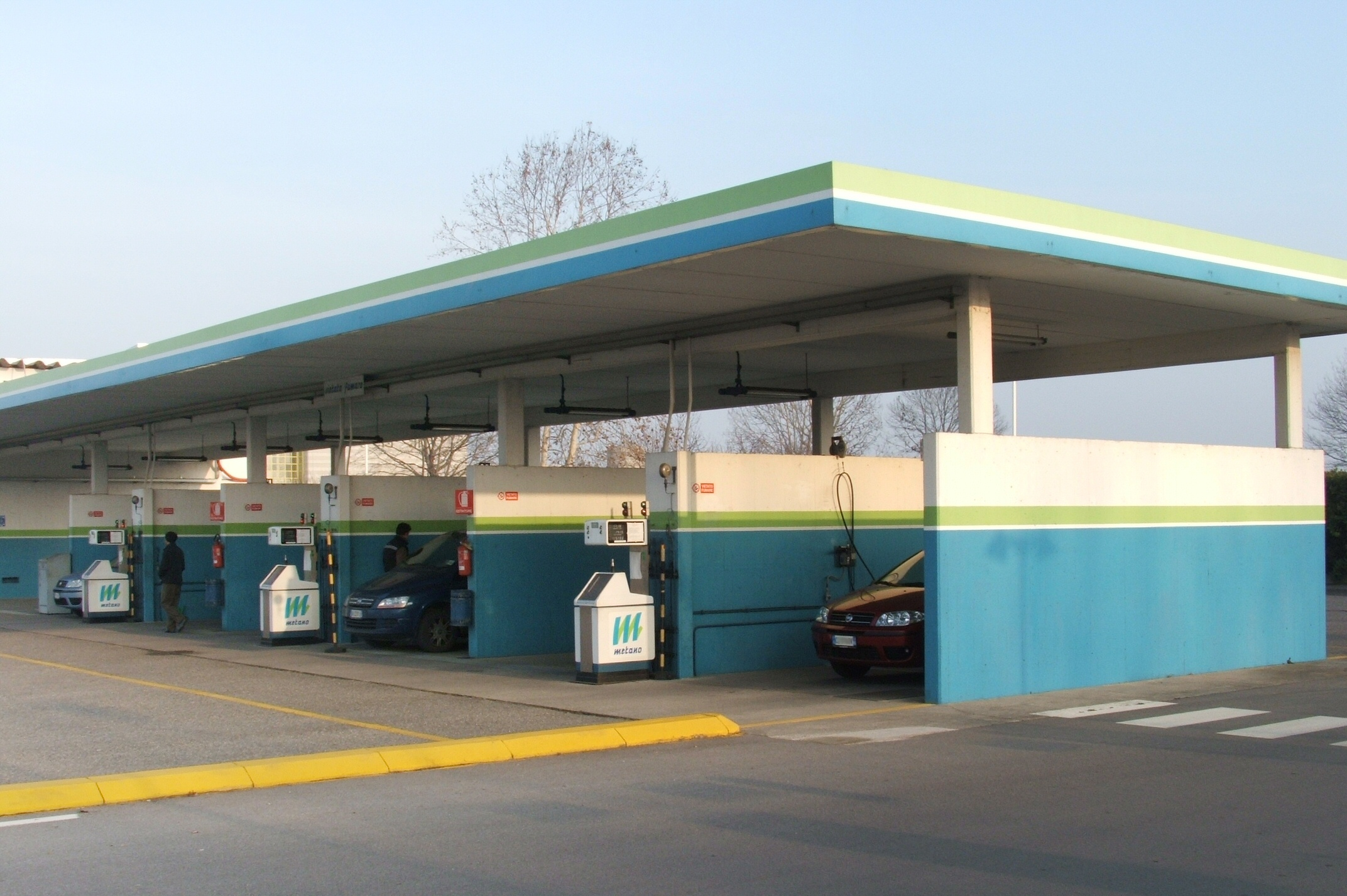 Methane station in Italy